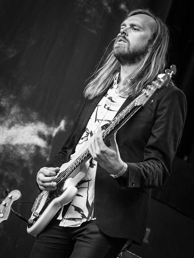 Øystein Frantzvåg performs at Piknik i Parken in Oslo on 25. June 2016. Lineup:Sivert Høyem (vocal)Christer Knutsen (guitar)Cato Salsa (guest guitar)Øystein Frantzvåg (bass)Børge Fjordheim (drums)